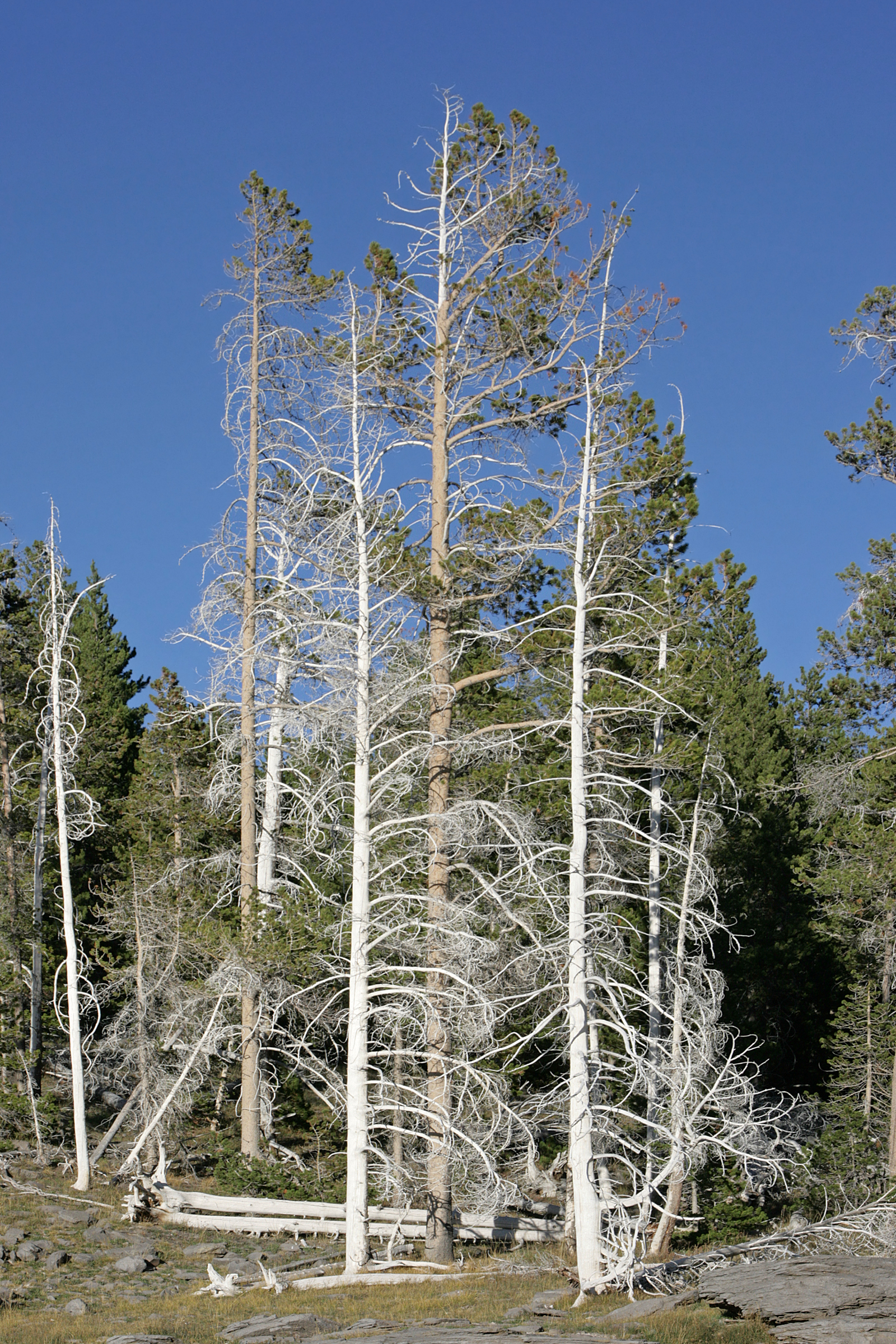 Bäume (Pinus contorta) am Grand Geysir im Yellowstone Nationalpark